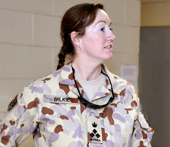 Cropped version of File:Simone Wilkie - original.jpg - see its entry for details.